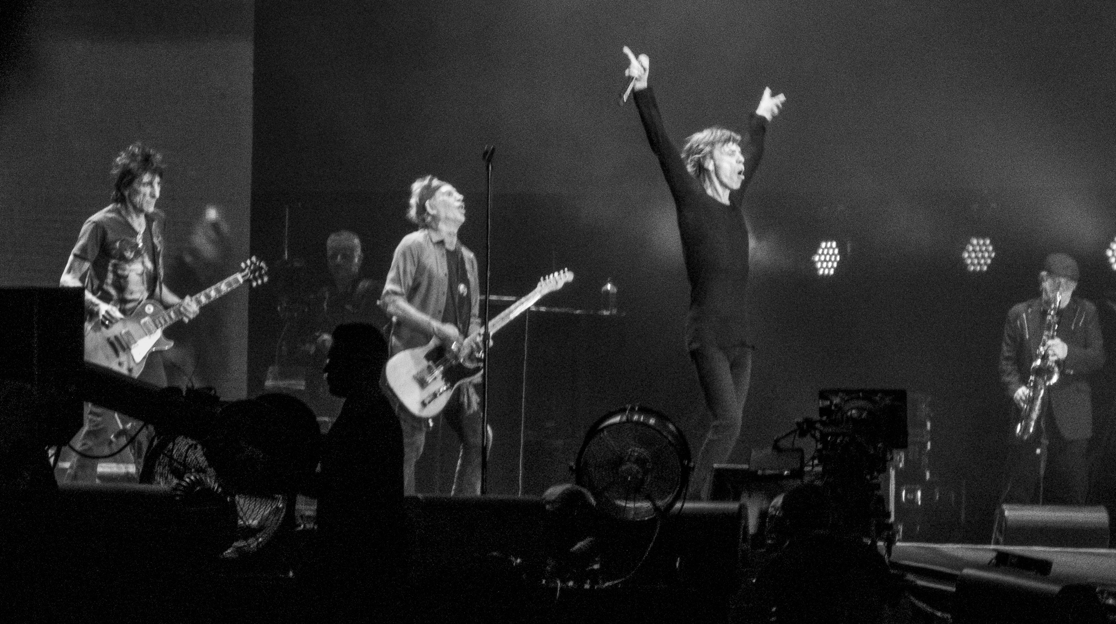 The Rolling Stones in concert at British Summer Time Festival in Hyde Park, July 6, 2013